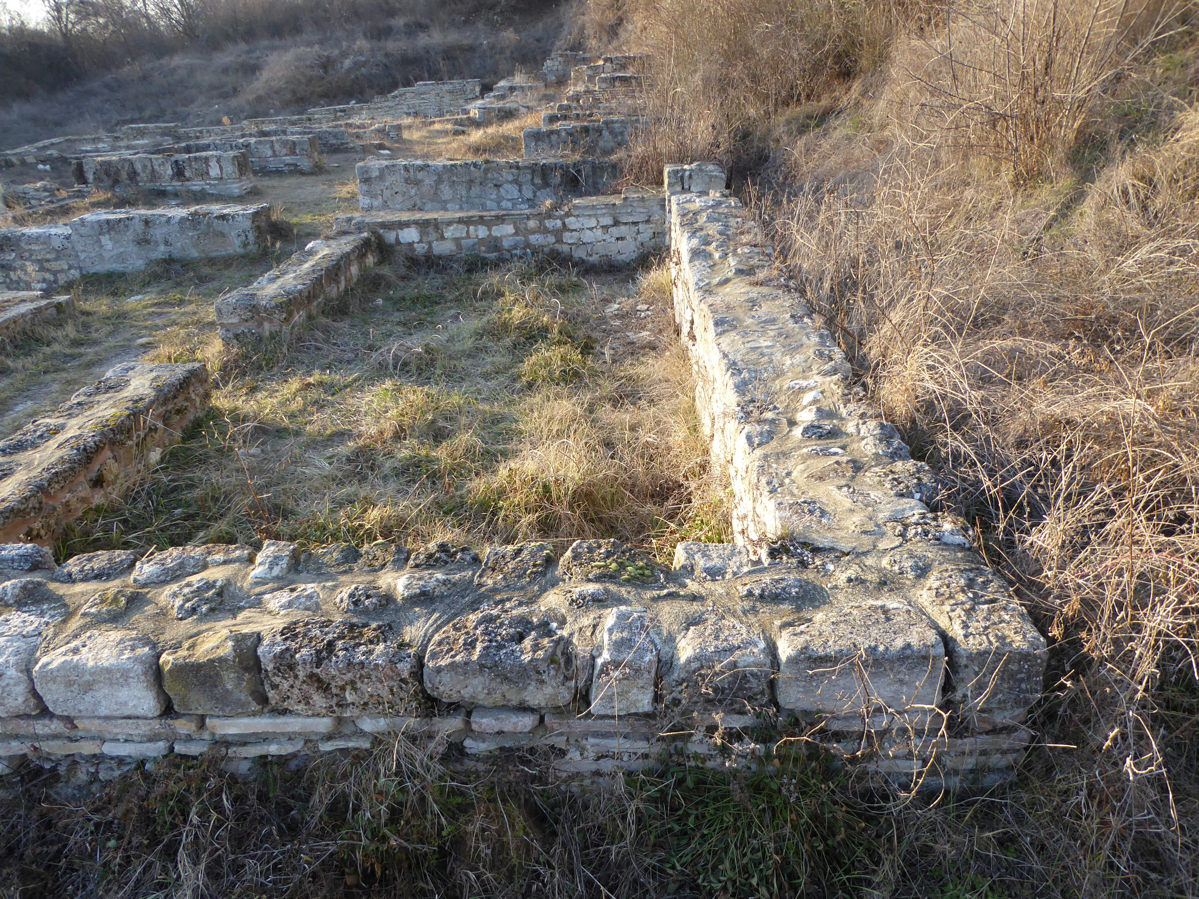 Royal Monastery „Holy Virgin“, Varna, Bulgaria, 9th century